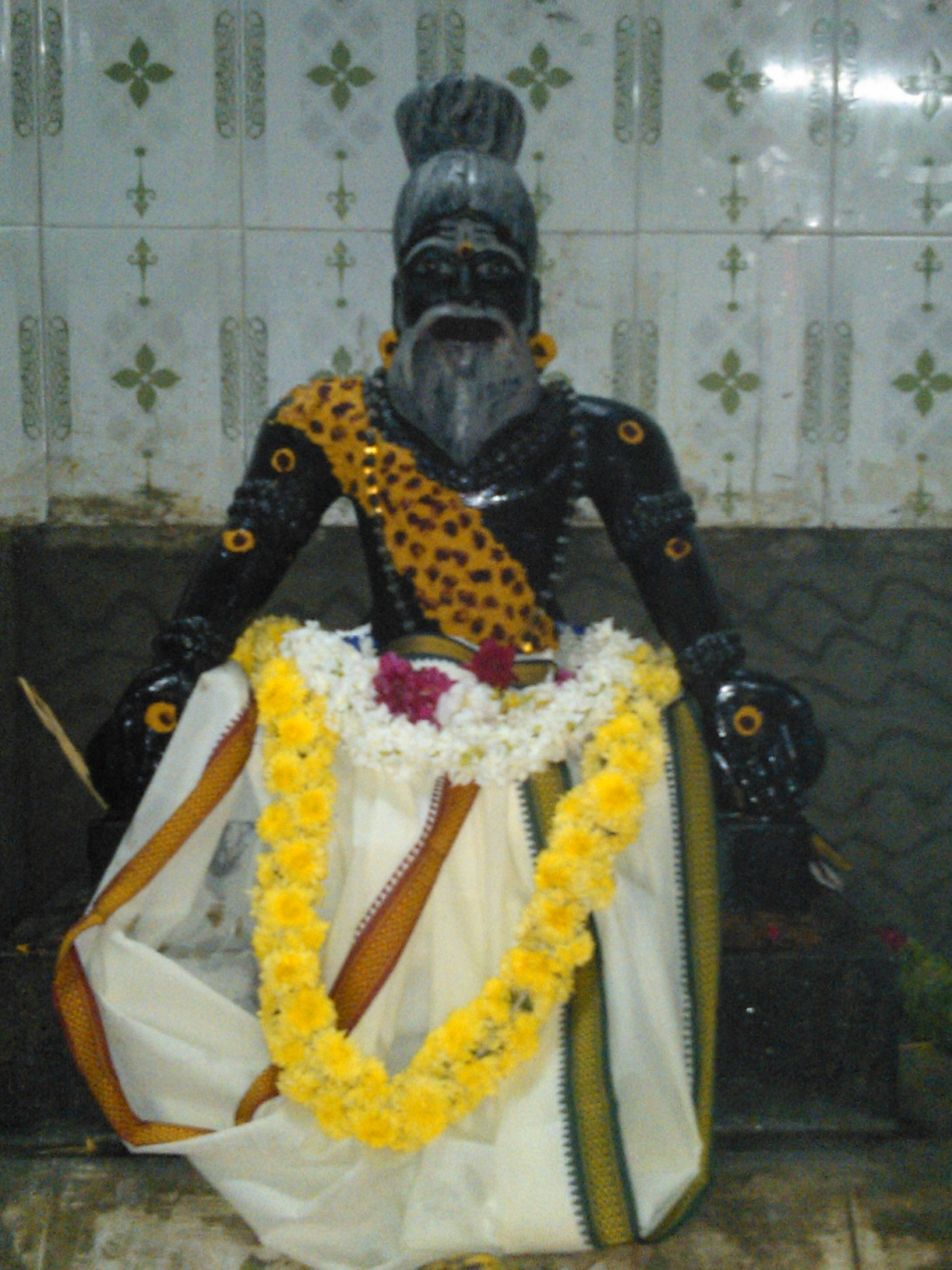 Thirumoolar Nayanar